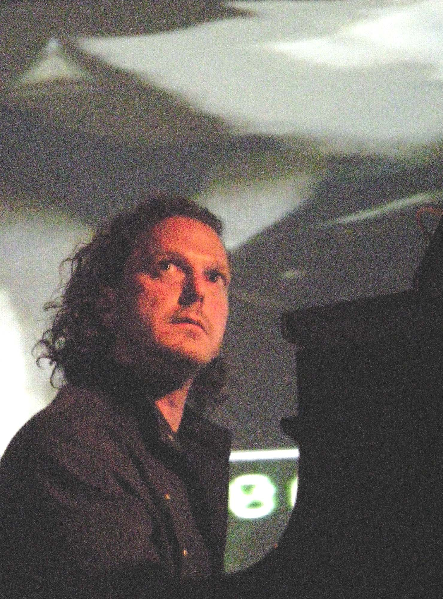 Austrian Band TOSCA performing 'No Hassle' (their new album) at Minoritenkirche, Vienna. Note: Camera time is set on UTC, which is local time -2.